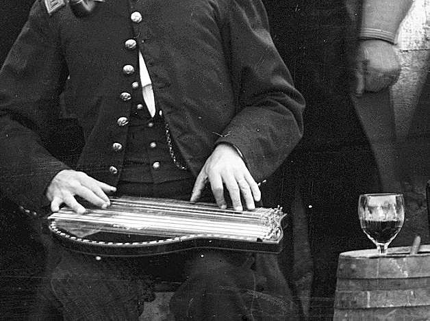 German Concert Zither